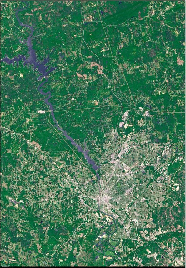 This updated LANDSAT 8 imagery from Mach of 2015 depicts the city of Columbus, GA along with neighboring Phenix, AL and the lakes of the Chattahoochee River.